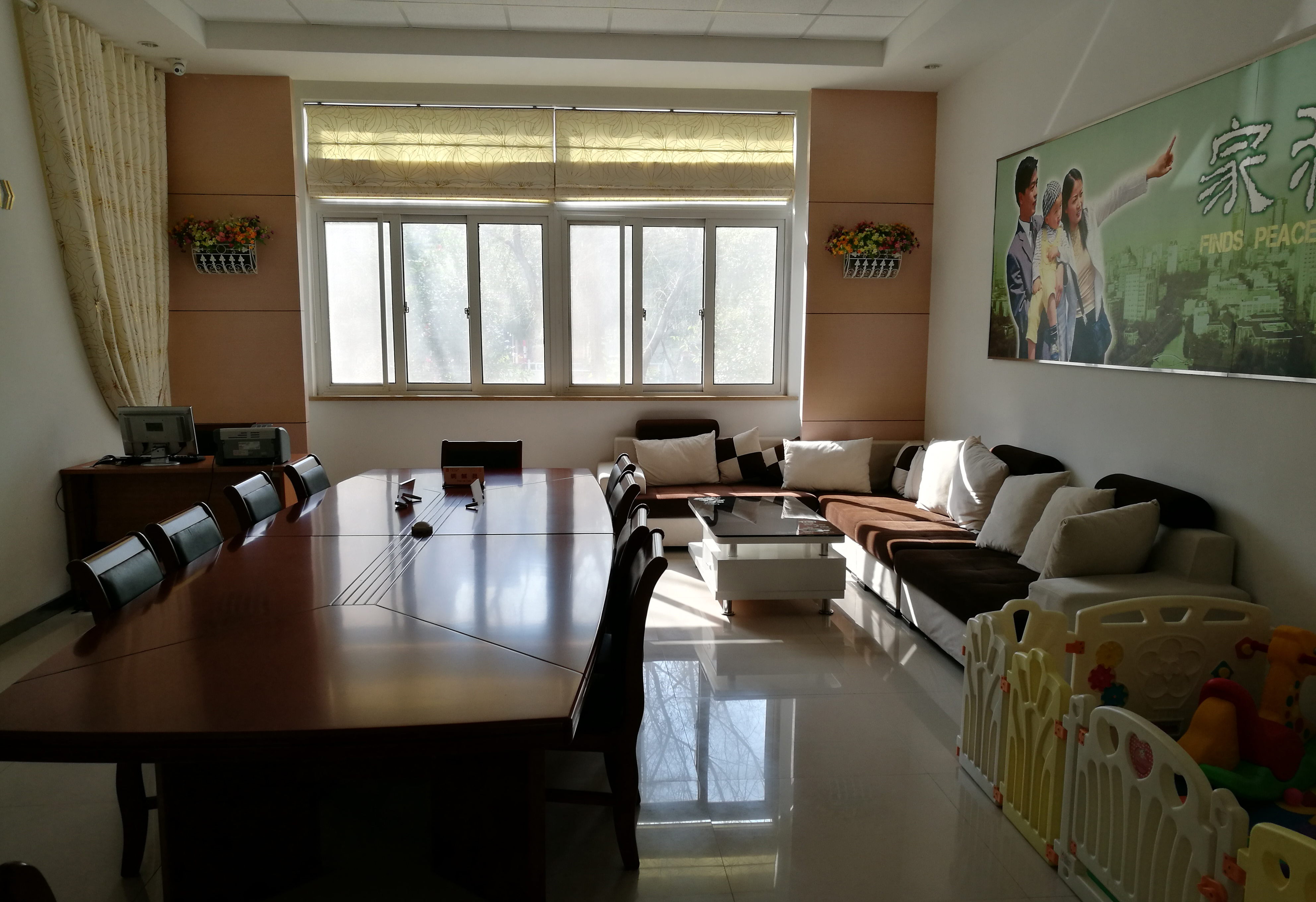 Family mediation room at a Chinese district court (People's Republic of China)